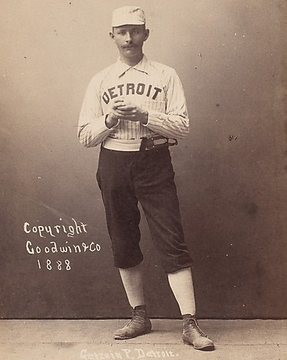 Old Judge Cigarettes baseball card for Charlie Getzien, published 1888.